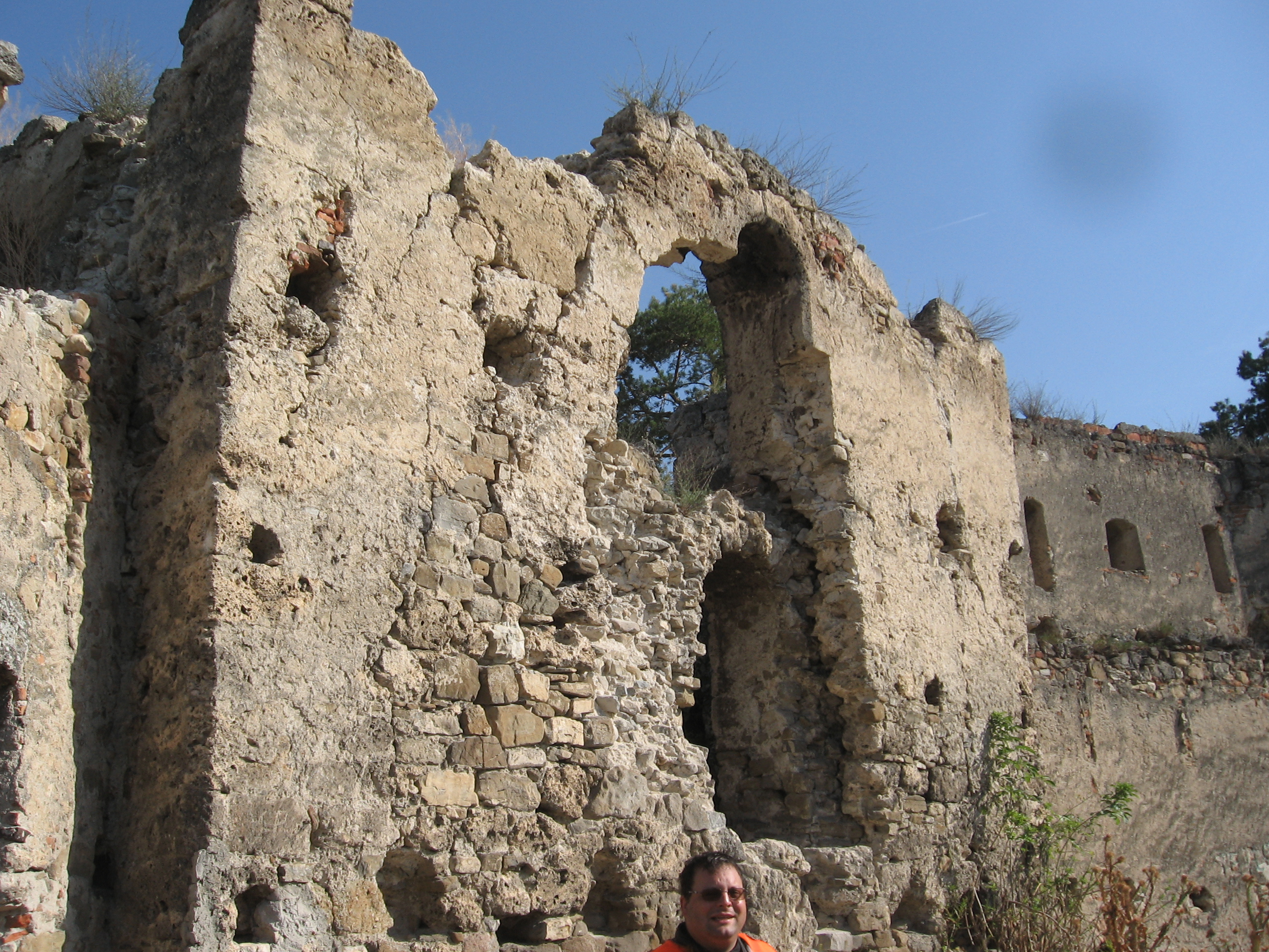 Feldioara citadel, tower and walls